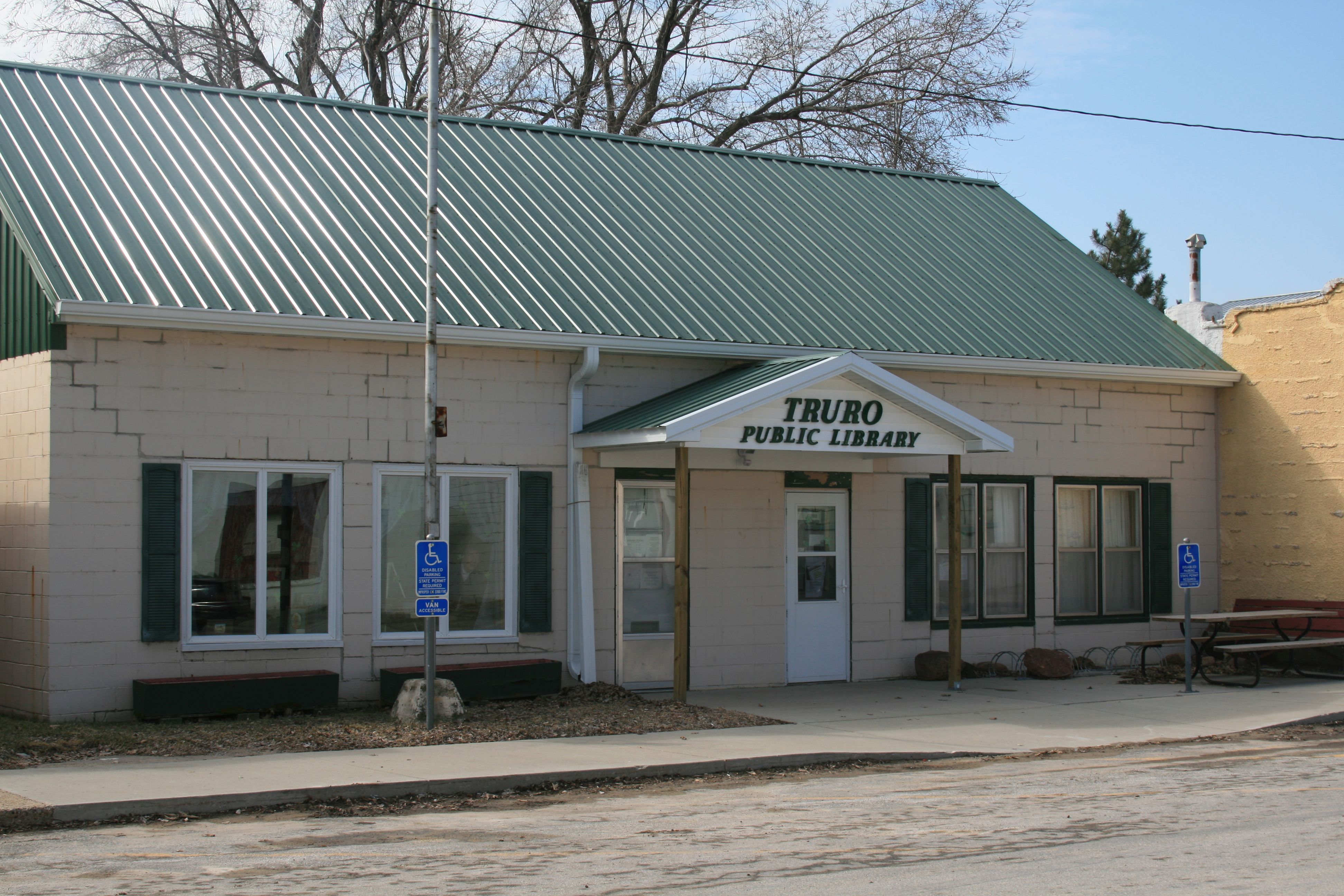 Library located in Truro, Iowa